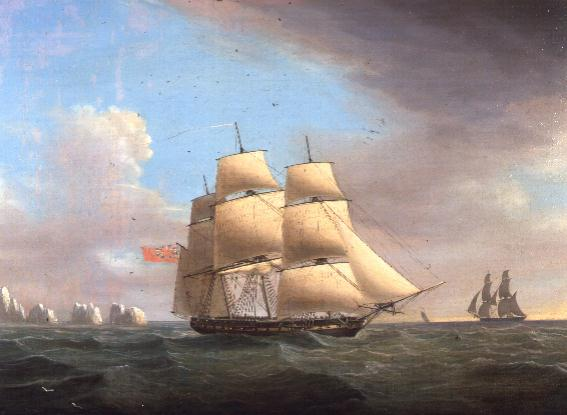 HMS Galatea